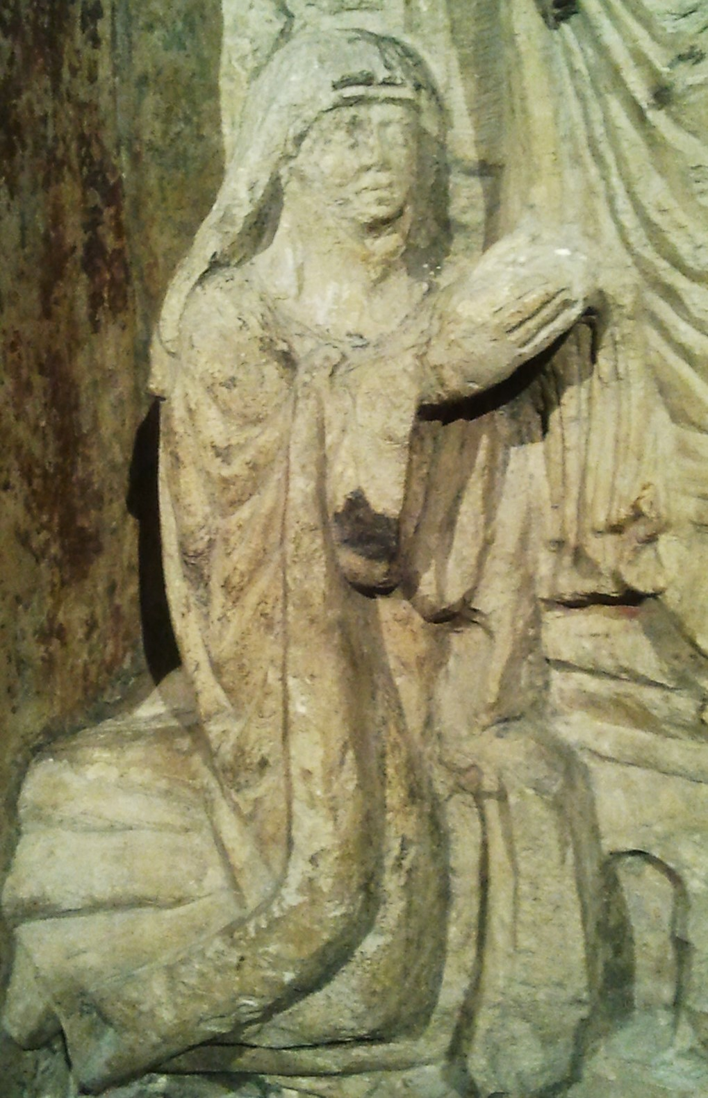 The first abbess of St. George Convent at the Prague Castle. Relief from the 1220s.